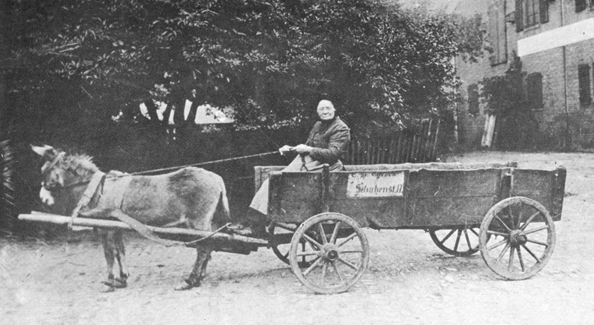 Mudder Corder (“mother Cordes”), a popular character from Bremen, Germany, with her donkey Anton around 1890.